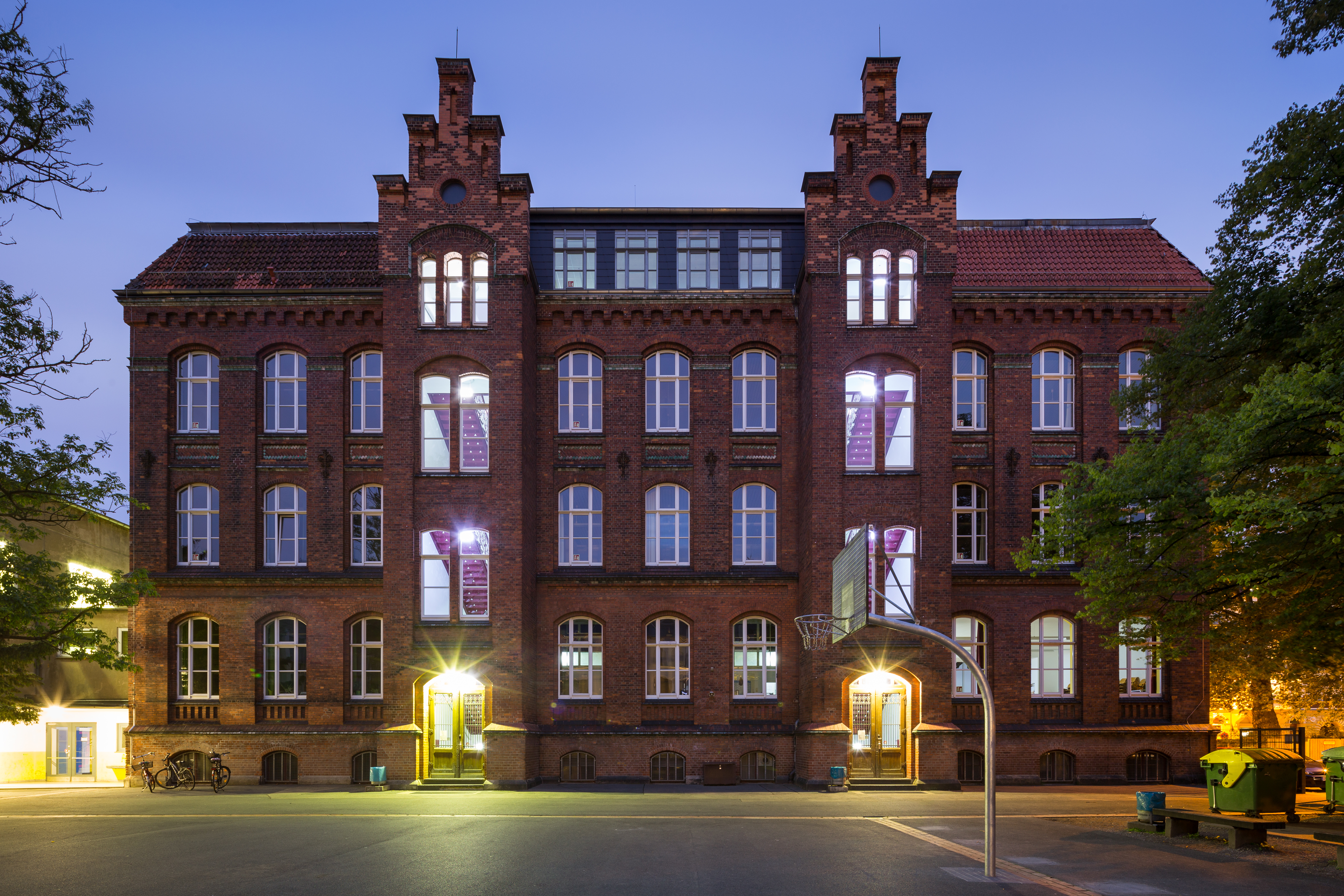 Elementary school located at Buergerstrasse and Edenstrasse in List quarter of Hannover, Germany.